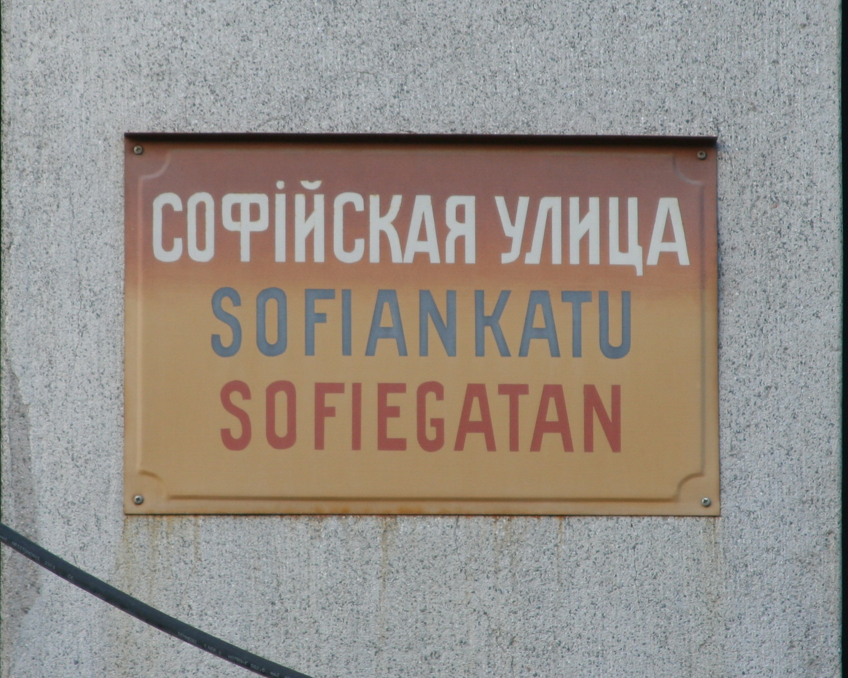 Sofiankatu, a Museum Street in Kruununhaka, Helsinki, Finland. The Sofiankatu Trilingual street sign, languages from top to bottom: russian, finnish, swedish.